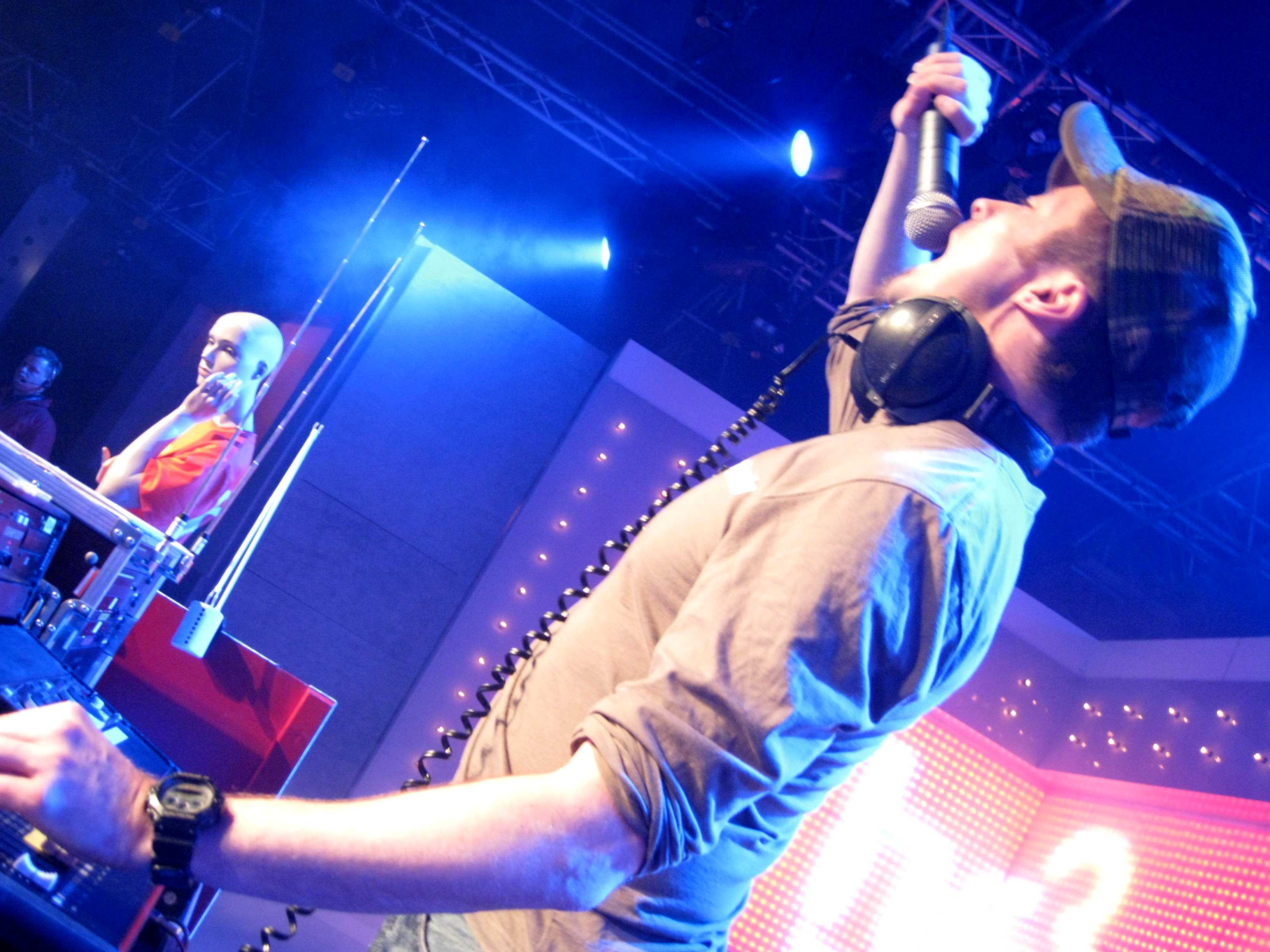 Peter Lack on the pentecost party jubilee in 2010 in Hesselbach.